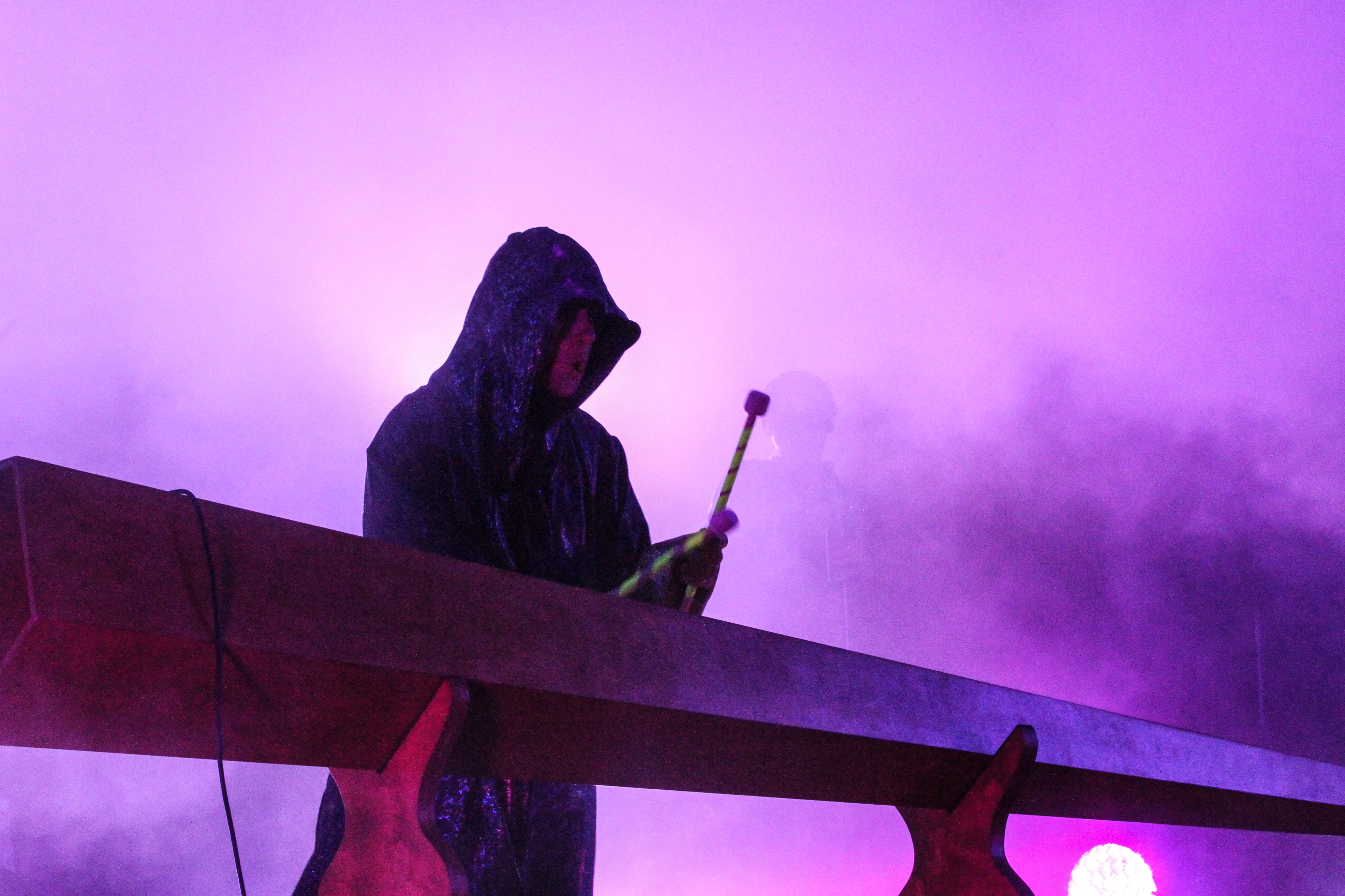 The Knife performing at Melt! Festival 2013